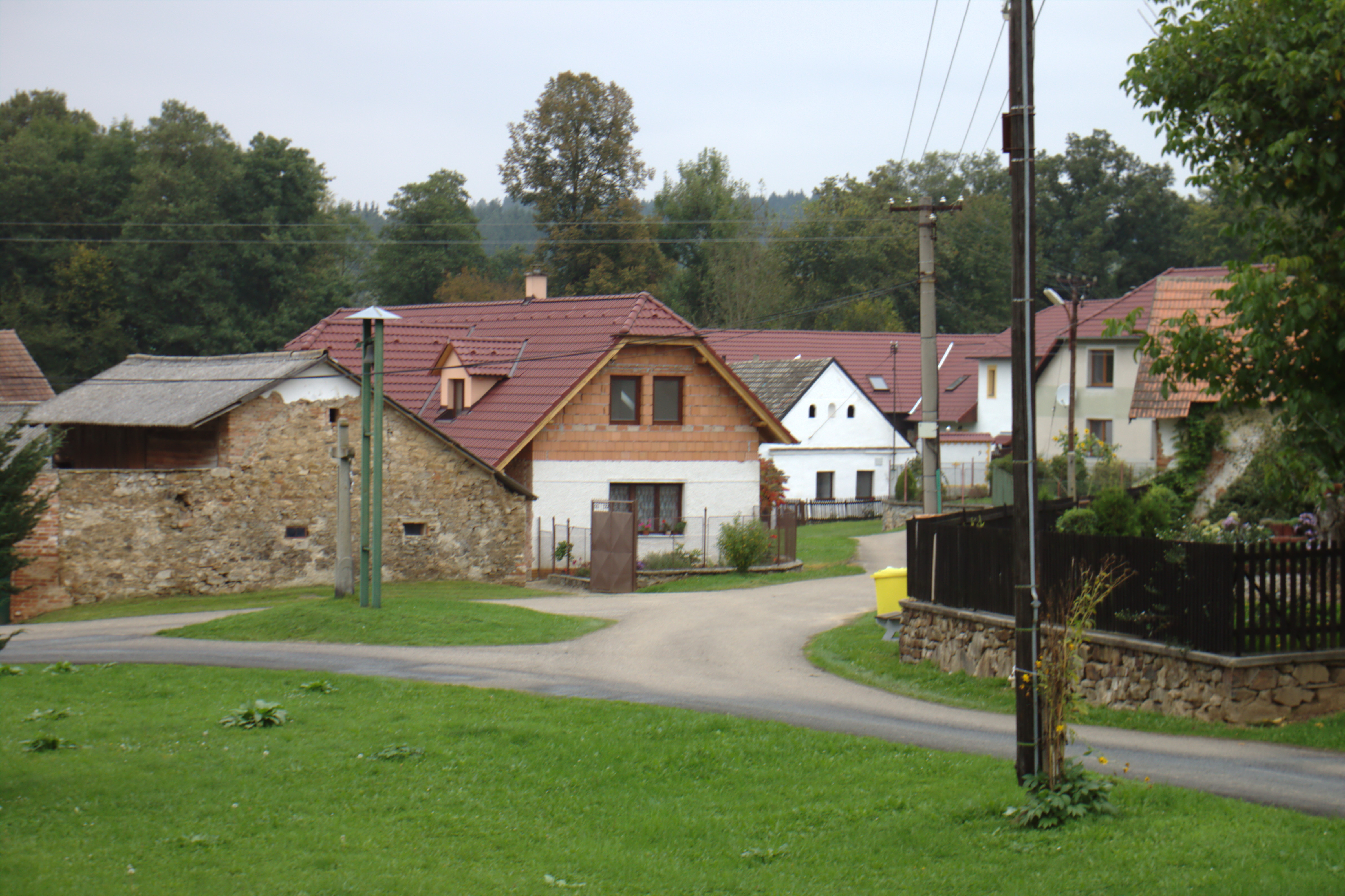 A common in Popovice near Šebířov, South Bohemian Region, CZ